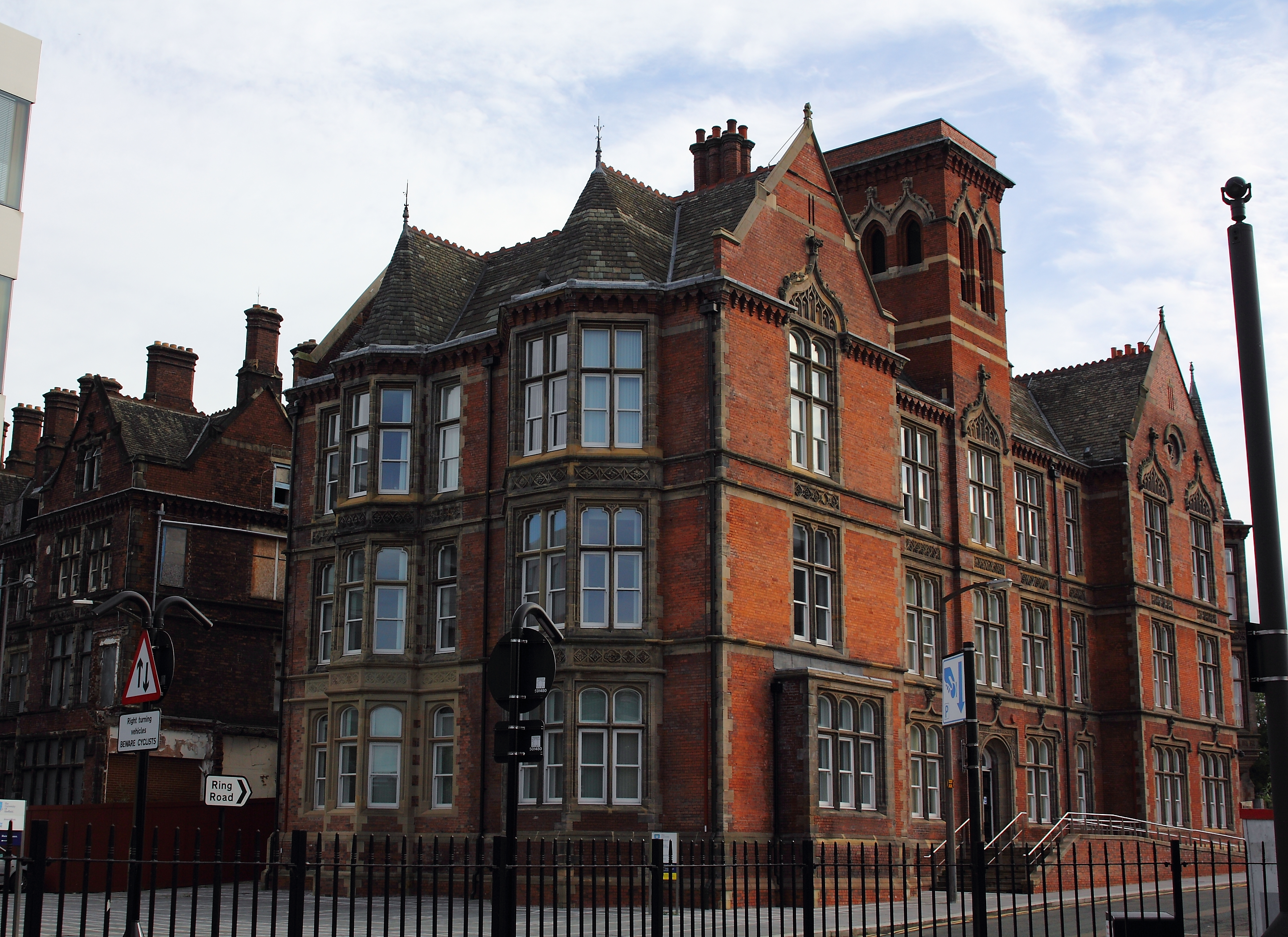 Shefunijossop2012